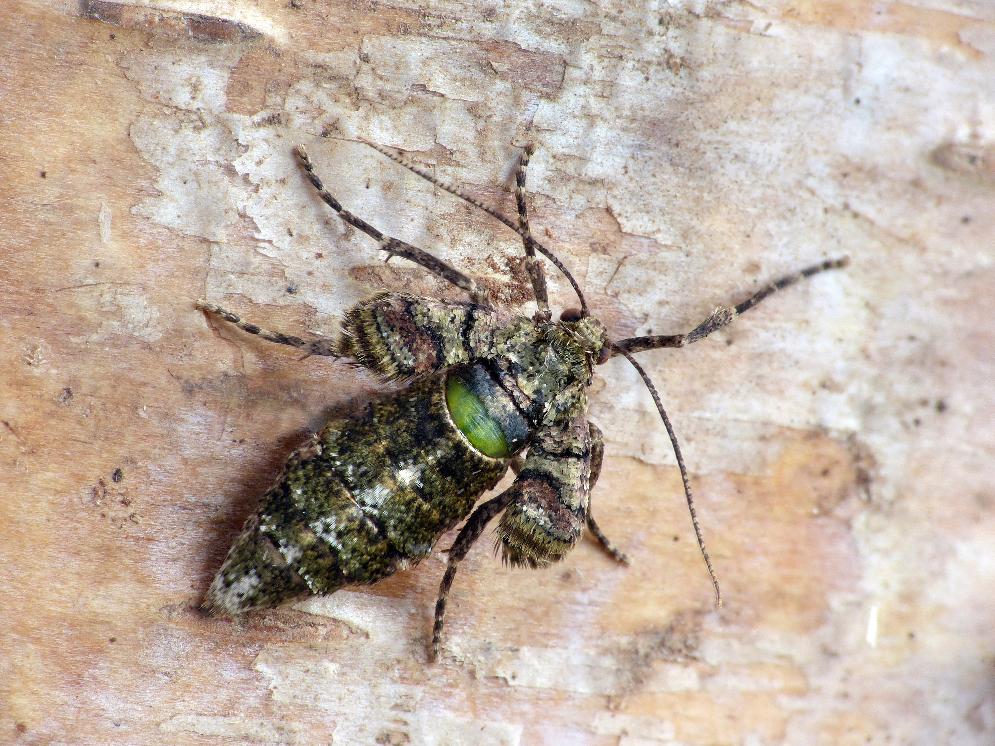 A newly emerged flightless female reared from larva.